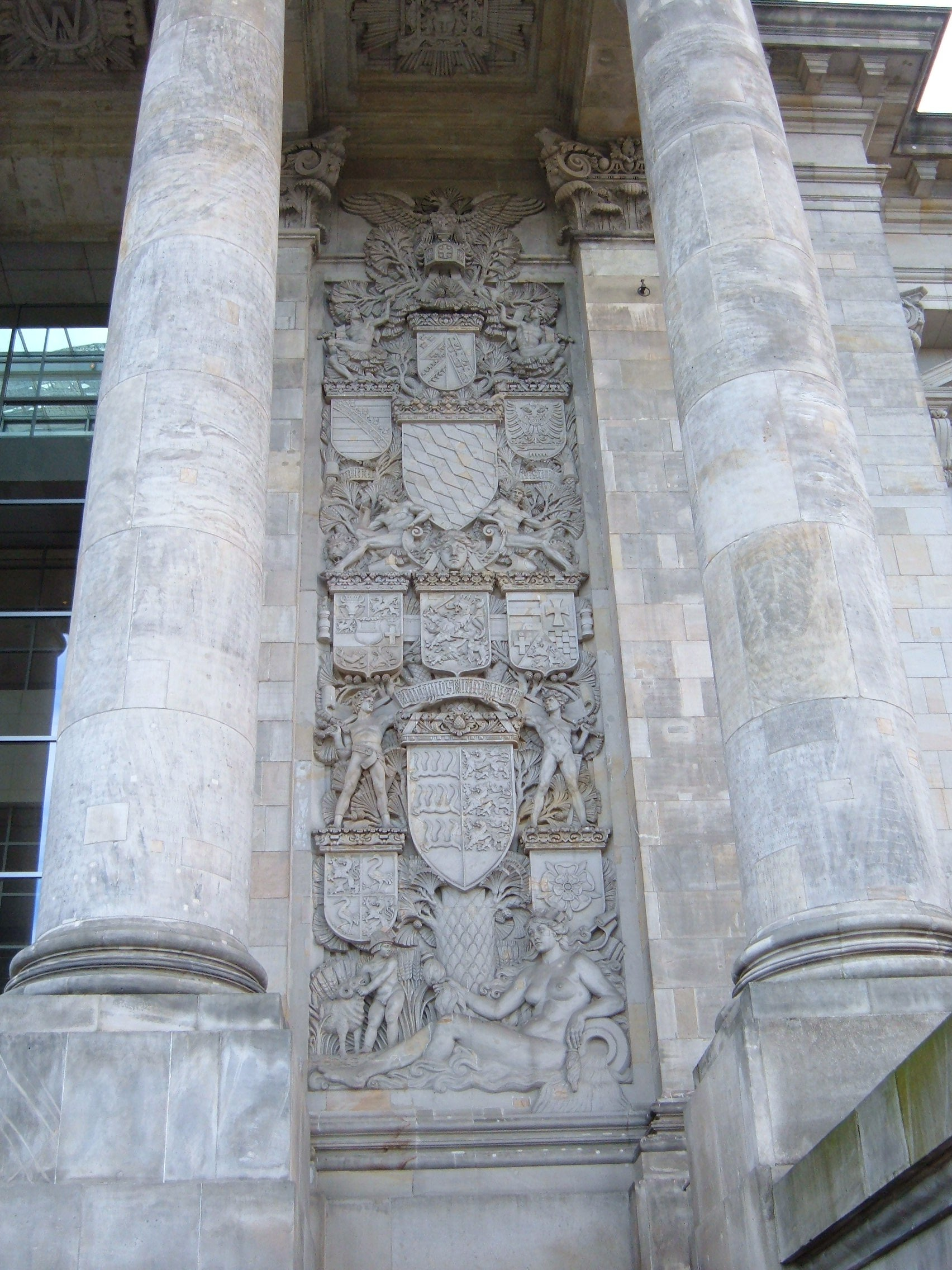 The columns on the main entrance of the Reichstag building in Berlin, Germany.